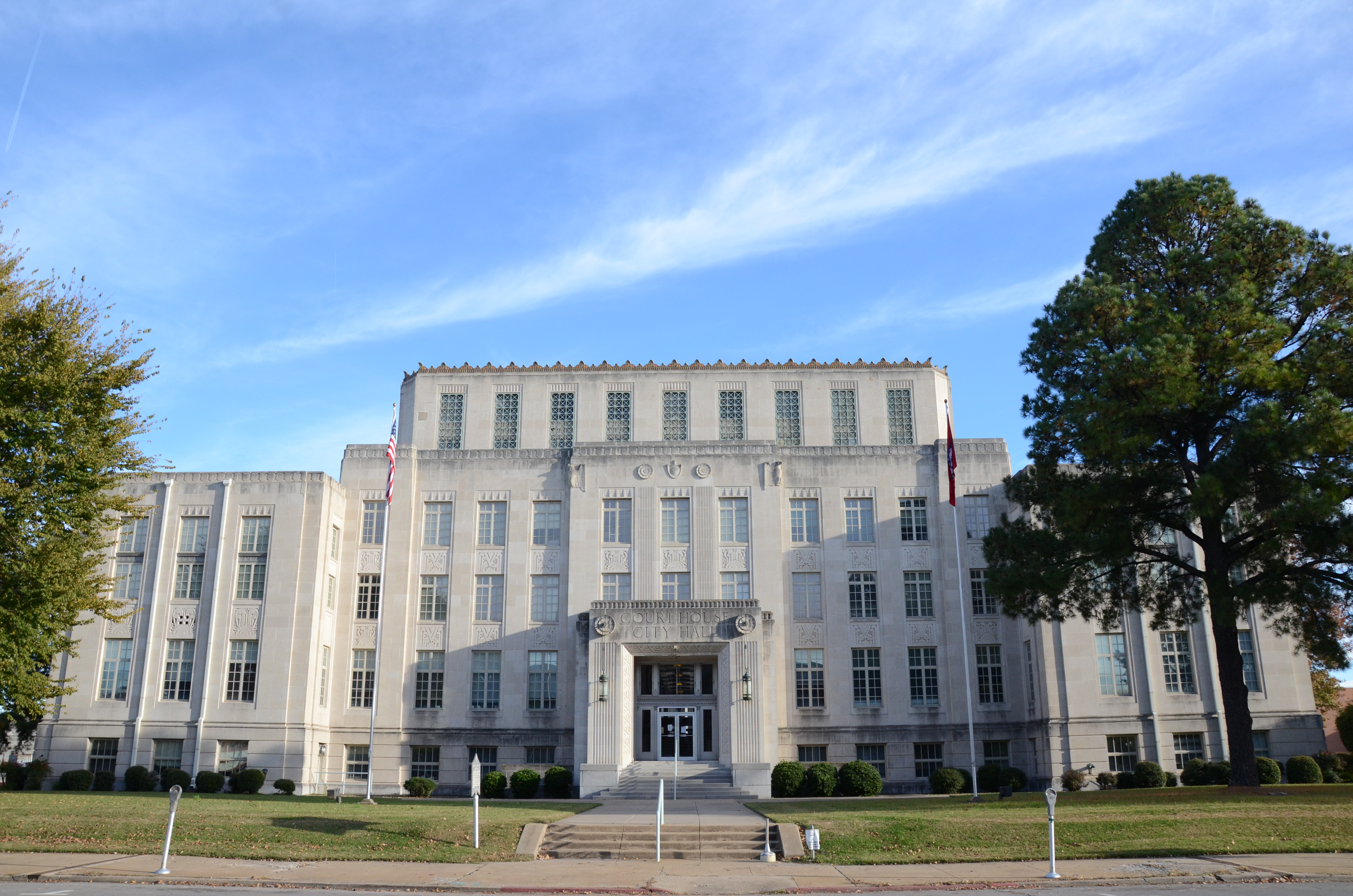 Sebastian County Courthouse-Ft. Smith City Hall, 100 S. 6th St. Fort Smith